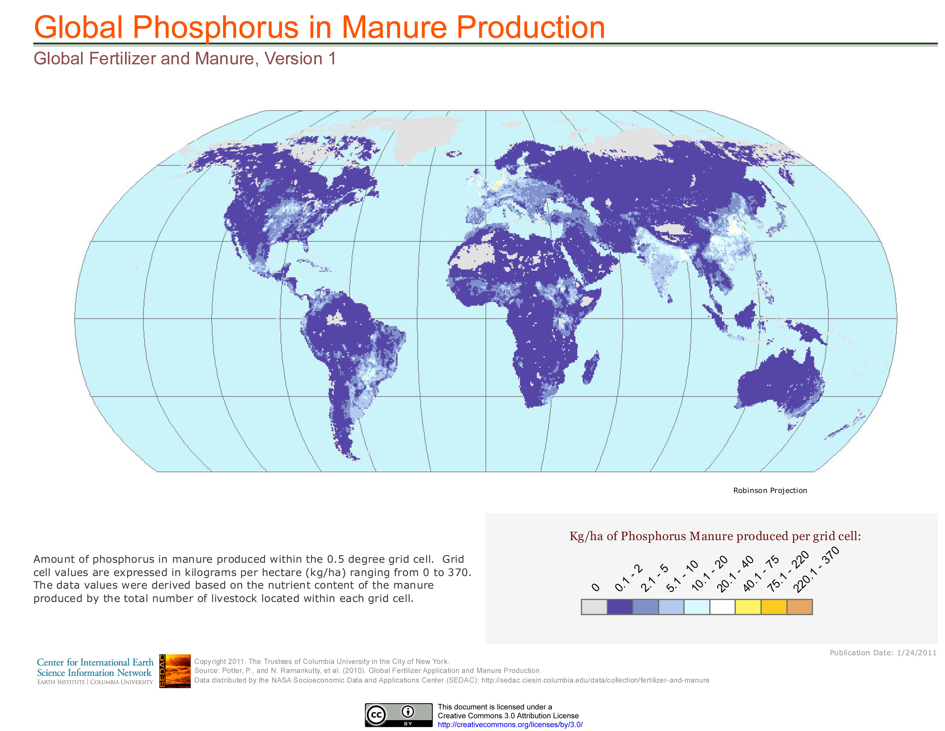 Amount of phosphorus in manure produced within the 0.5 degree grid cell. Grid cell values are expressed in kilograms per hectare (kg/ha) ranging from 0-370. The data values were derived based on the nutrient content of the manure produced by the total number of livestock located within each grid cell.